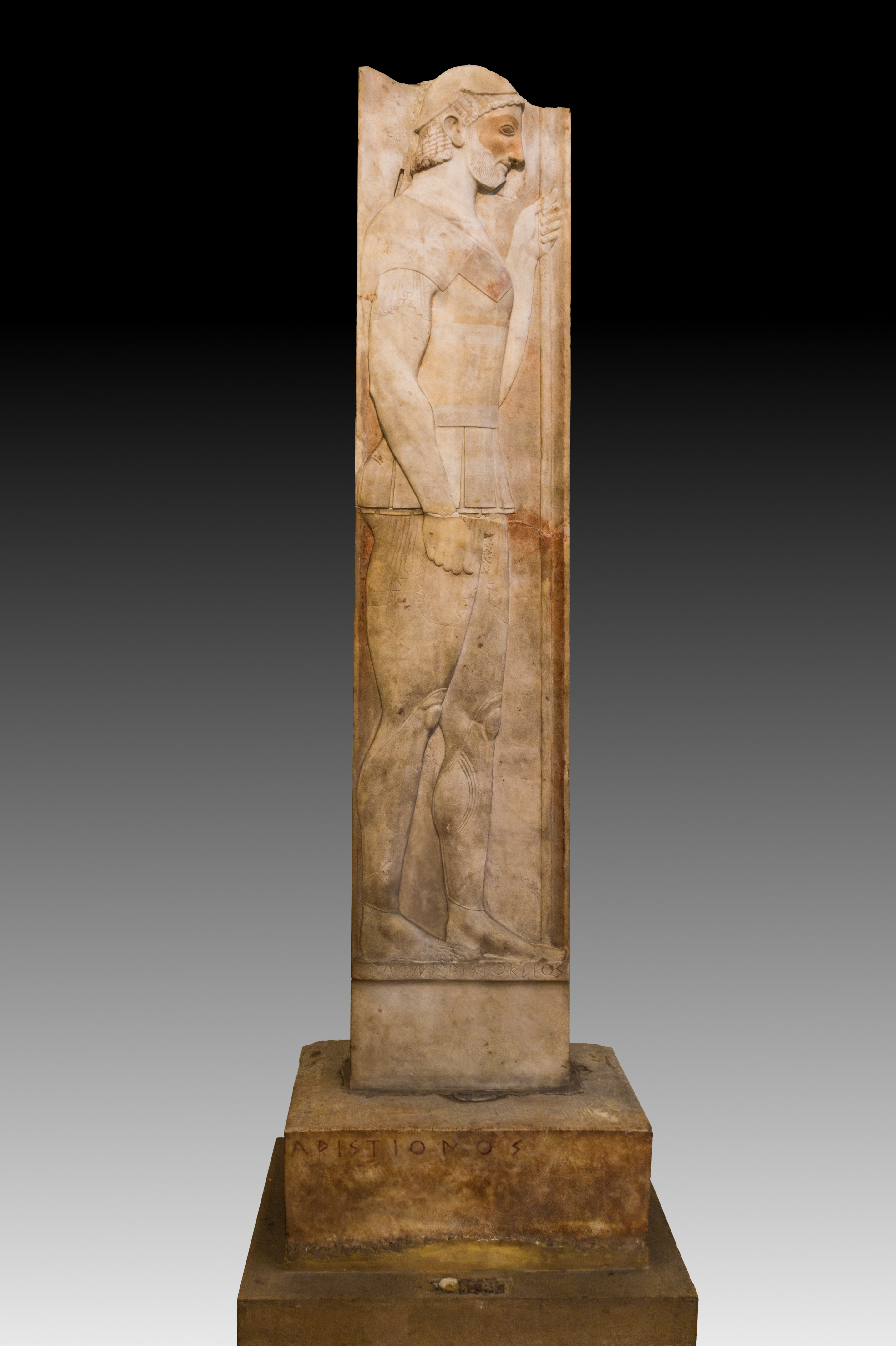 Grave stele of a hoplite named Aristion. Pentelic marble. Attic style, signed by Aristokles, about 510 BCE. N°29